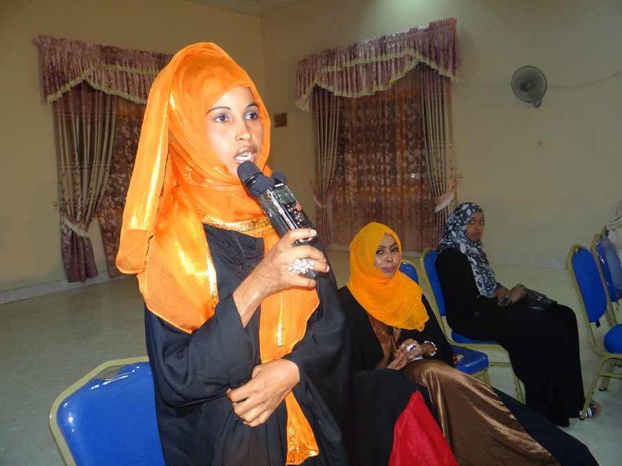 Somali young women at a community event in Hargeisa, Somalia.